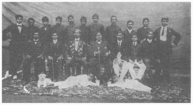 The image shows a group photo of the members of Great Bengal Circus. Priyanath Bose is seated fourth from left. To his right (third from left) is magician Ganapati Chakraborty wearing a suit decorated with medals.